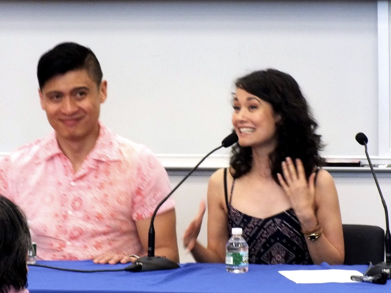 Paolo Montalban and Ali Ewoldt at Filipino American National Historical Society 2016 Conference in New York.